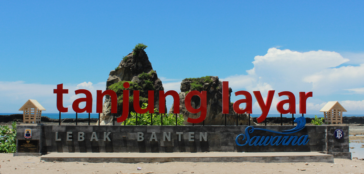 Tanjung Layar is a beach in Sawarna, Bayah, Lebak, Banten.